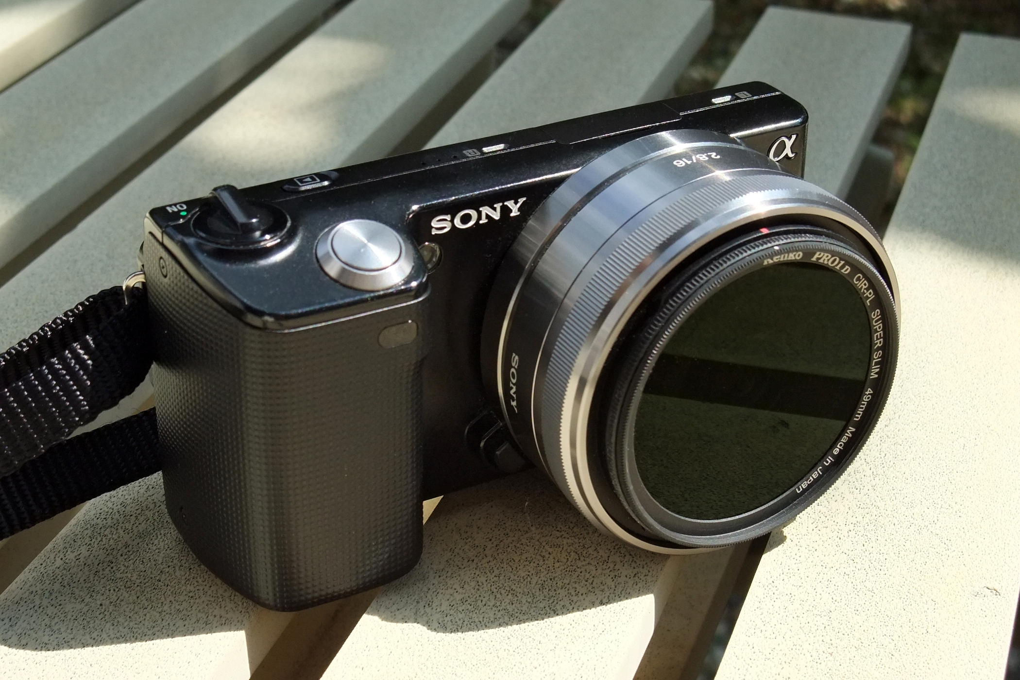 Sony NEX-5